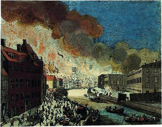 Coloured engraving depicting Gammel Strand in Copenhagen during the Great Fire of 1795.